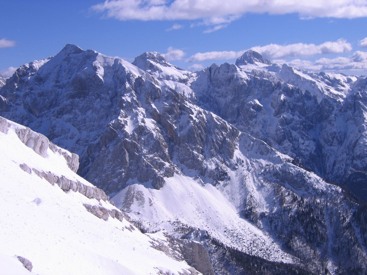 Triglav, Slovenia.